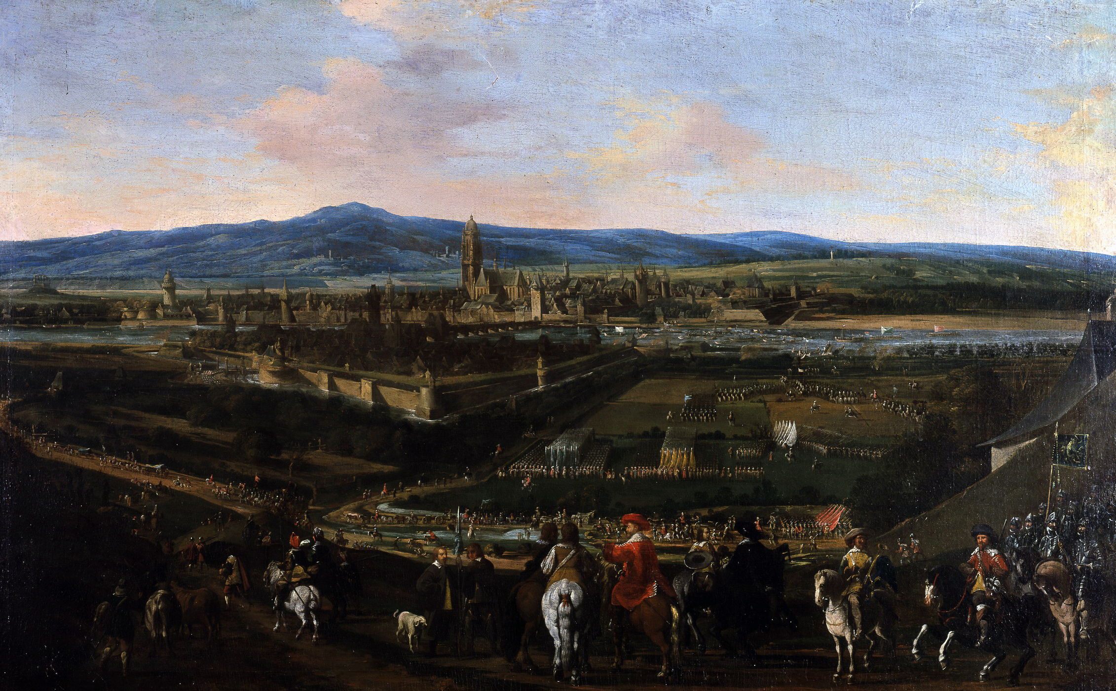 Frankfurt on the Main: Entrance of Gustav Adolf in Frankfurt; oil on wood